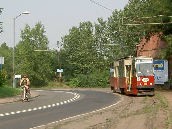 Another passing loop, Chebzie Tlenownia